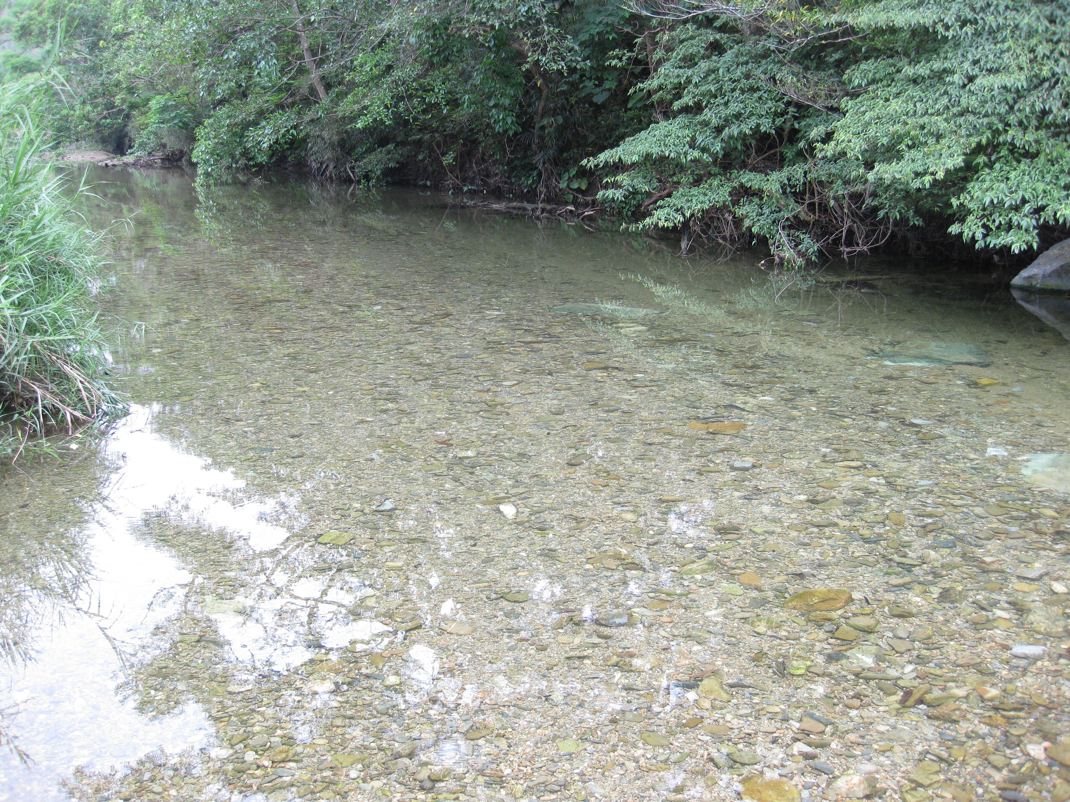 Genka River of Okinawa, Japan